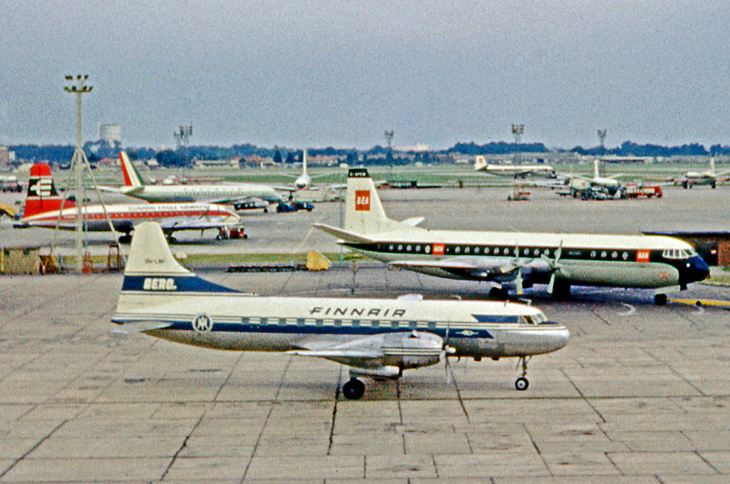 Convair 440 OH-LRF of Finnair at London Heathrow in 1963